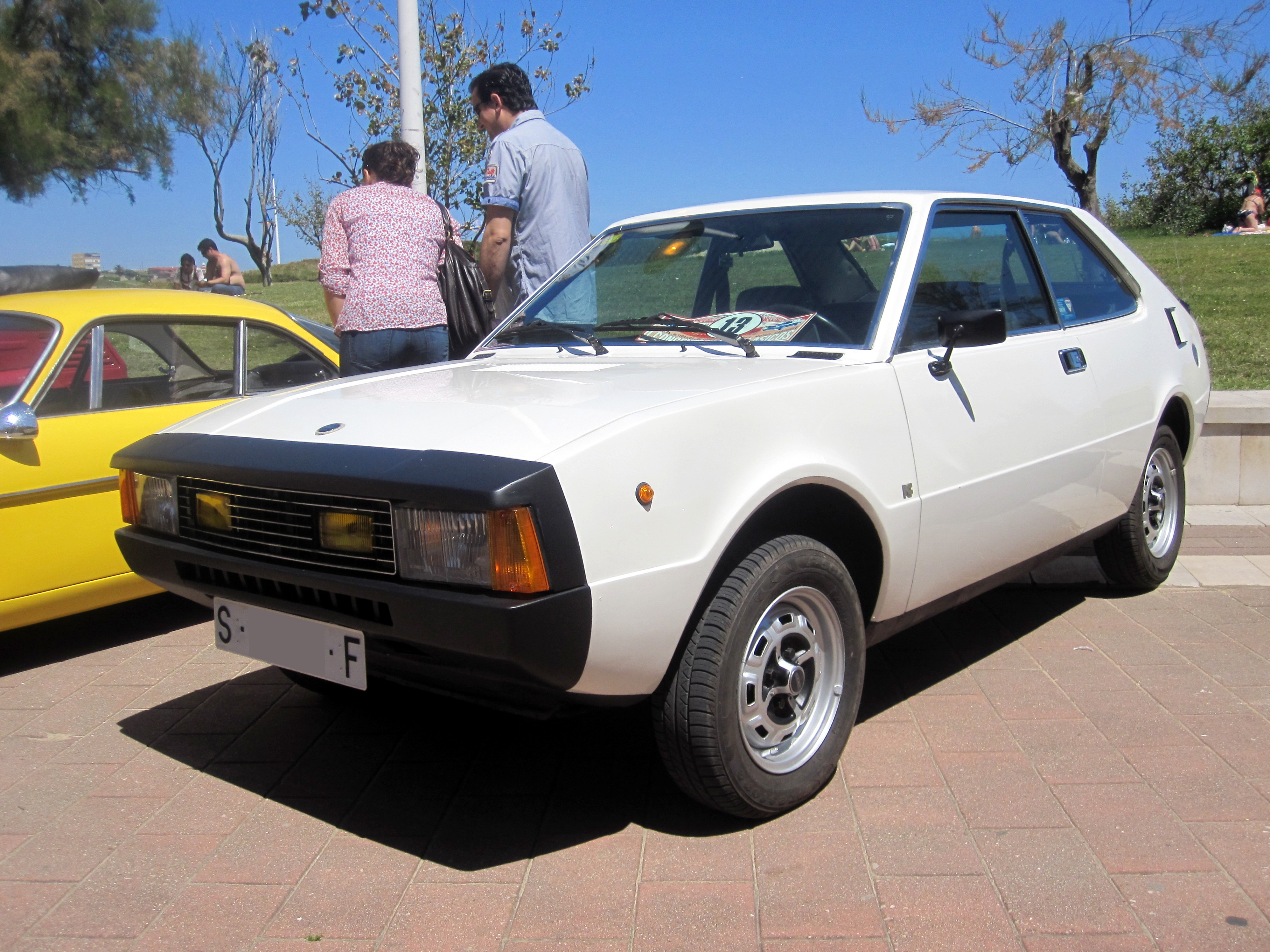 Love these!! They're so rare nowadays... I wouldn't mind one at all, one of my favorite Seat models undoubtedly! This one was in great condition, it had 1977 plates from Santander (Cantabria), was seen in Suances (Cantabria).